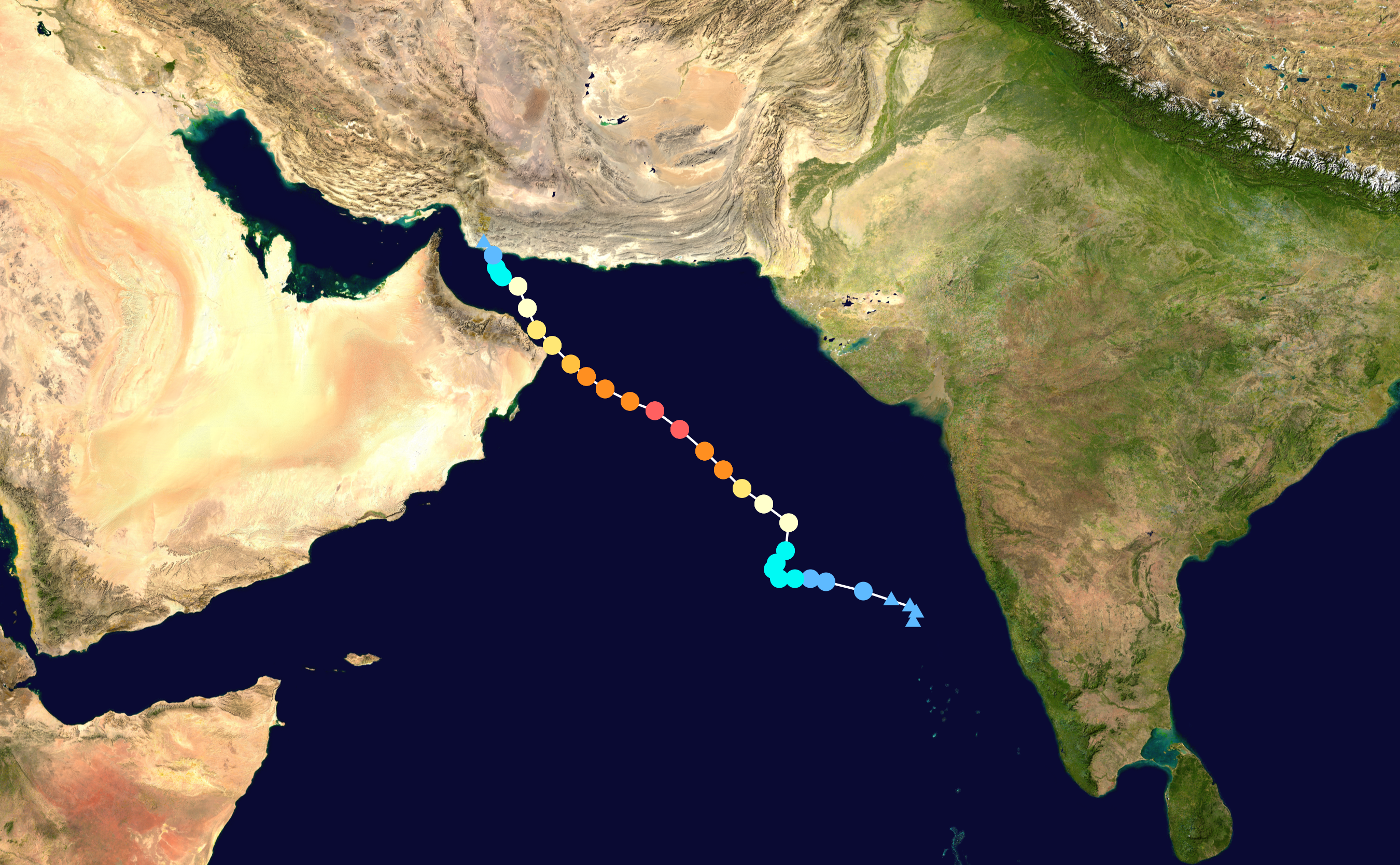 Track map of Super Cyclonic Storm Gonu of the 2007 North Indian Ocean cyclone season. The points show the location of the storm at 6-hour intervals. The colour represents the storm's maximum sustained wind speeds as classified in the Saffir–Simpson scale (see below), and the shape of the data points represent the nature of the storm, according to the legend below. Saffir–Simpson scale Tropical depression≤38 mph≤62 km/h Category 3111–129 mph178–208 km/h Tropical storm39–73 mph63–118 km/h Category 4130–156 mph209–251 km/h Category 174–95 mph119–153 km/h Category 5≥157 mph≥252 km/h Category 296–110 mph154–177 km/h Unknown Storm type Tropical cyclone Subtropical cyclone Extratropical cyclone / Remnant low / Tropical disturbance / Monsoon depression